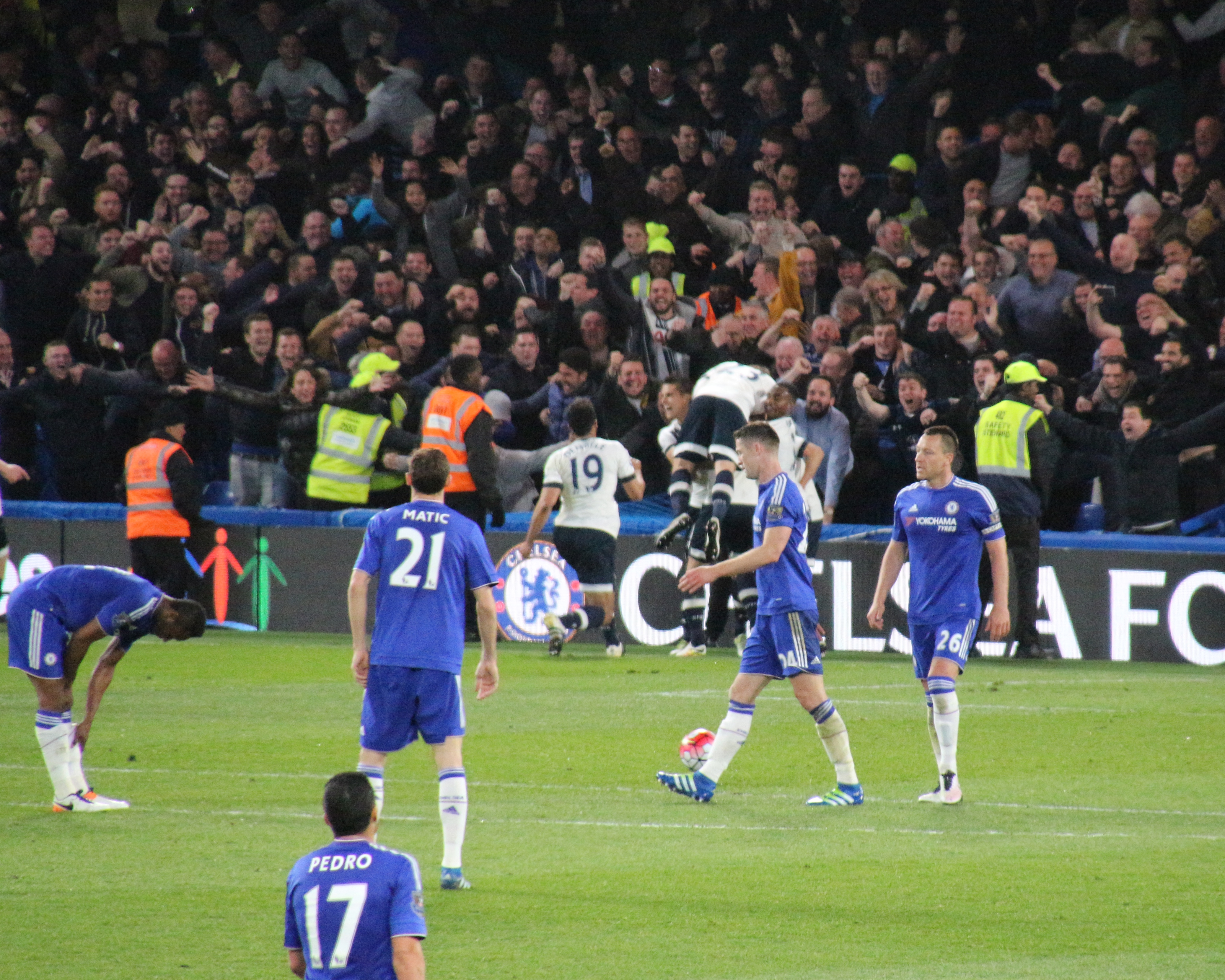 Chelsea v Spurs 2 May 2016, dubbed Battle of Stamford Bridge. Spurs players celebrating in front of their fans after they scored.